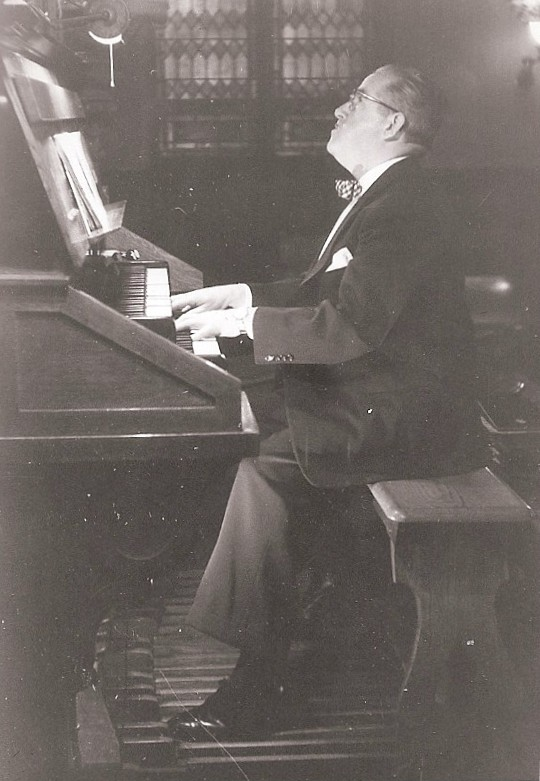 Willy Reske playing the organ at St. Paul's 1952